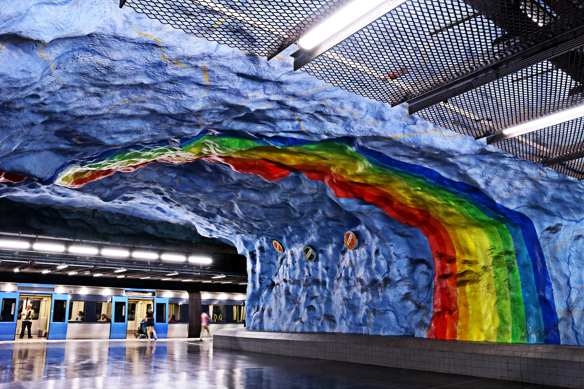 Stadion, Stockholm Metro Station (Red line)